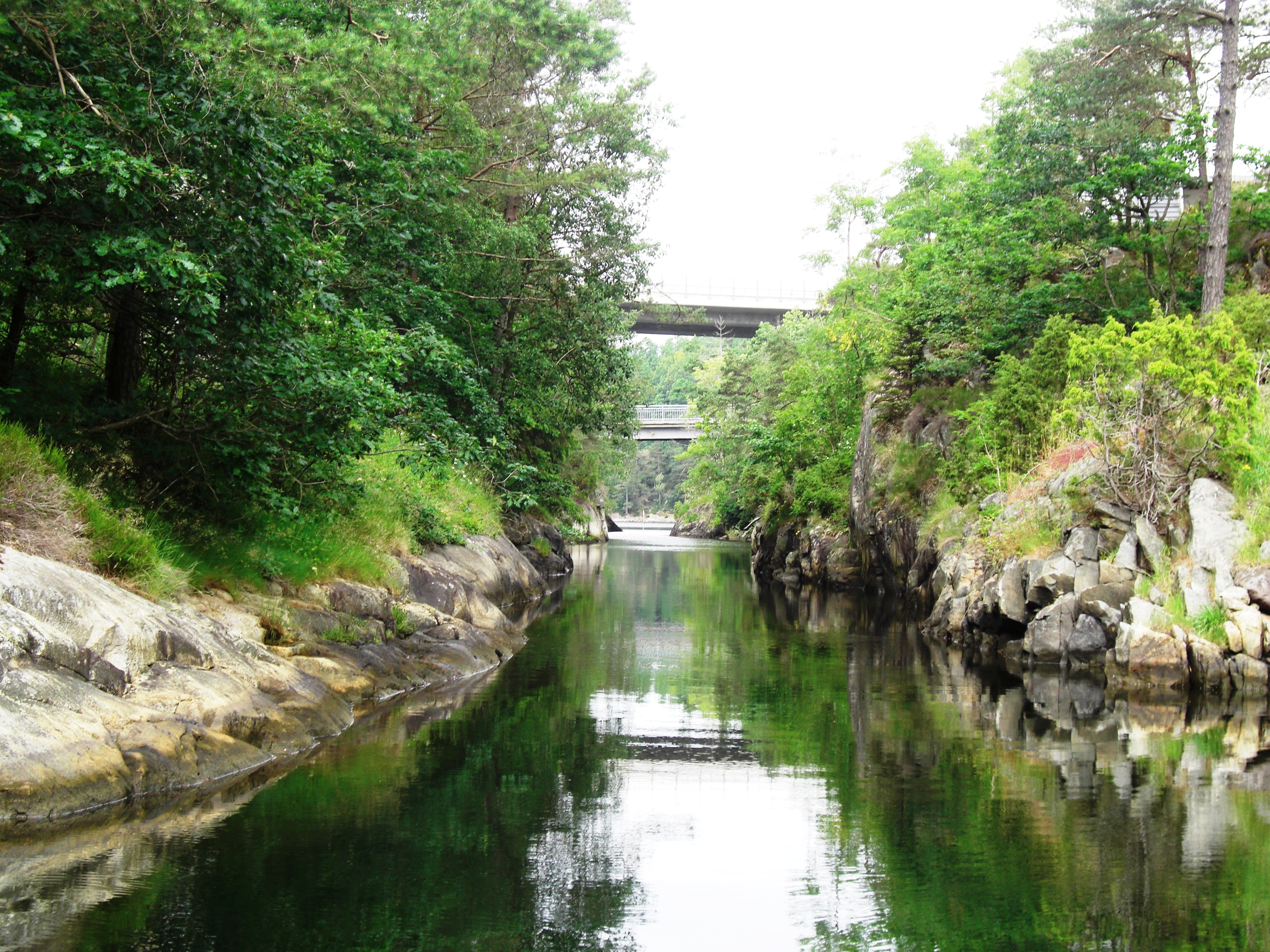 Reddal canal